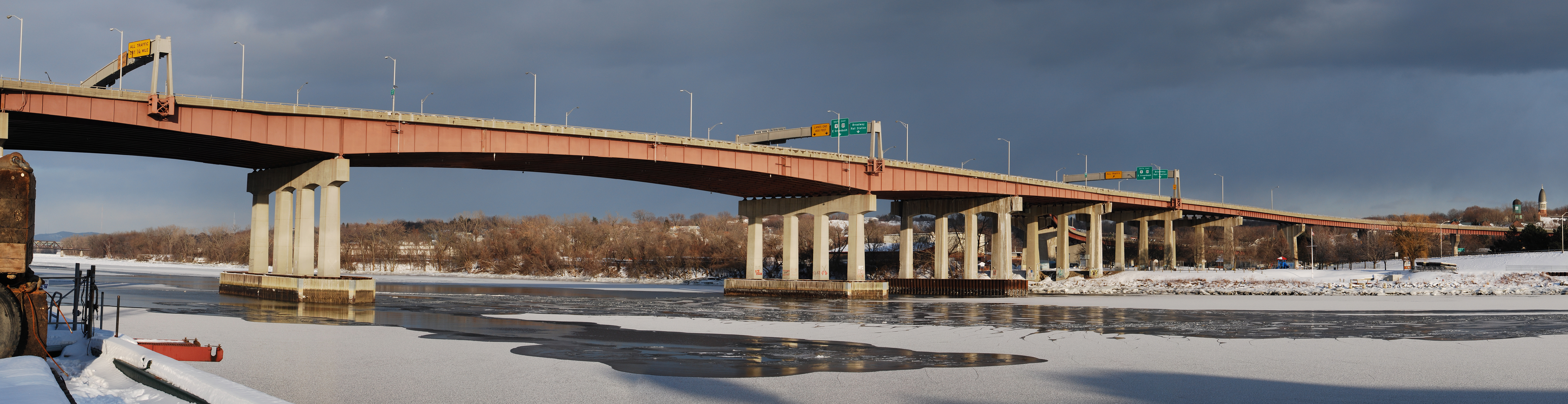 Dunn Memorial Bridge, which carries US Route 9 and US Route 20 across the Hudson River, connecting Albany and Rensselaer in New York.